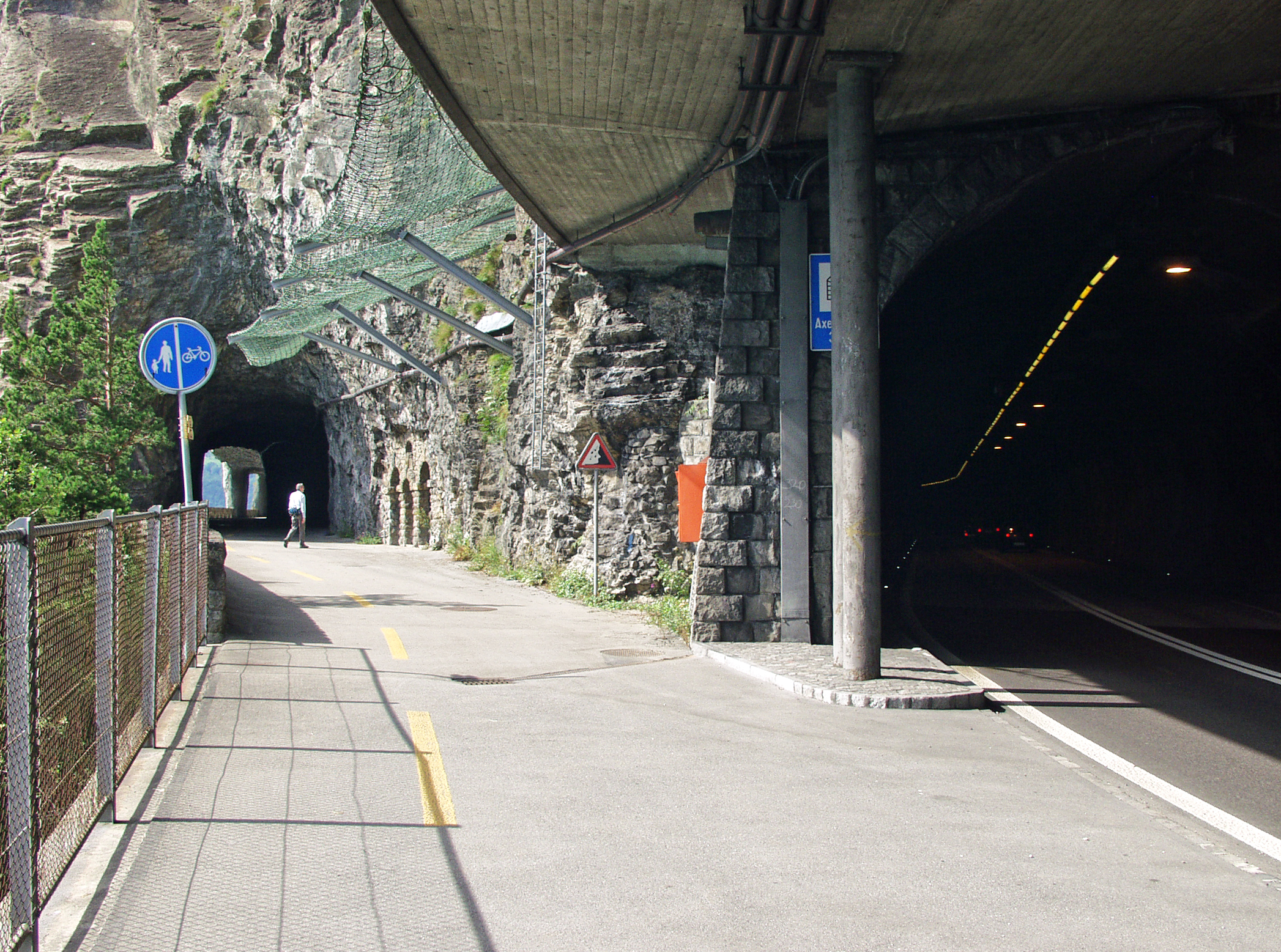 Axenstrasse, connection between Brunnen and Flüelen, along the eastern shore of Lake Uri in the canton of Uri. It leads through the village of Sisikon. The two-lane main road leads over bridges, through tunnels and rockfall galleries.